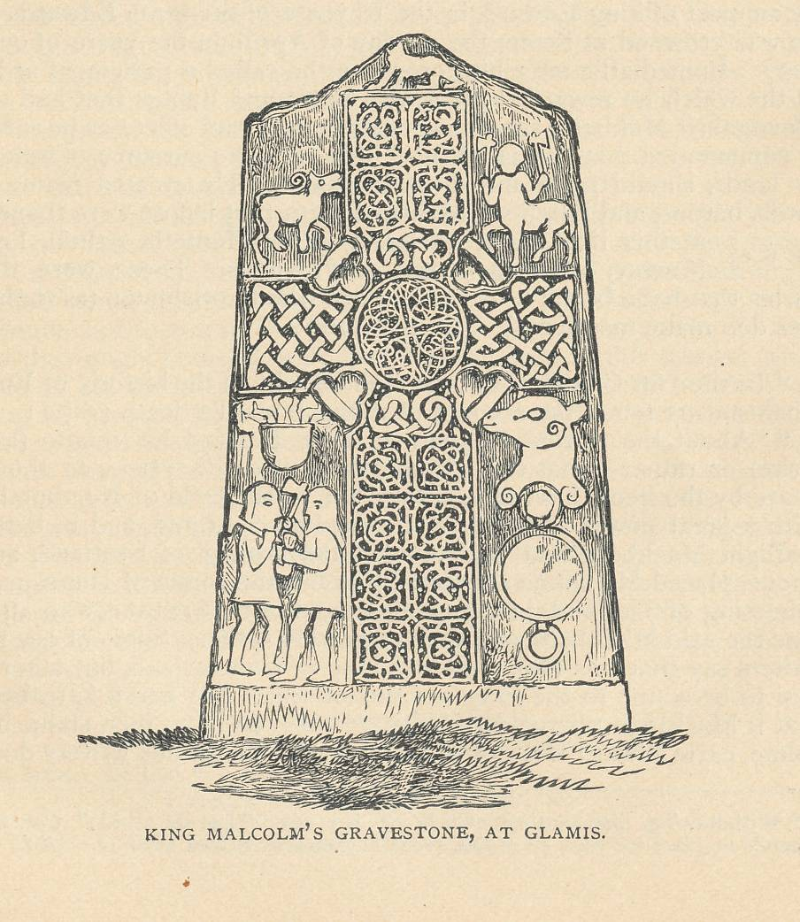 "King Malcolm's Gravestone at Glamis." (From Shakespeare's Tragedy of Macbeth, 1898. by Harper & Brothers. Engravings included. Edited by William J. Rolfe.) In modern nomenclature, "Glamis no. 2", a Class II Pictish stone, perhaps formed using a Bronze Age standing stone: see Lloyd Laing, "The date and context of the Glamis, Angus, carved Pictish stones" (Proceedings of the Society of Antiquaries of Scotland, 131 (2001), 223–239).